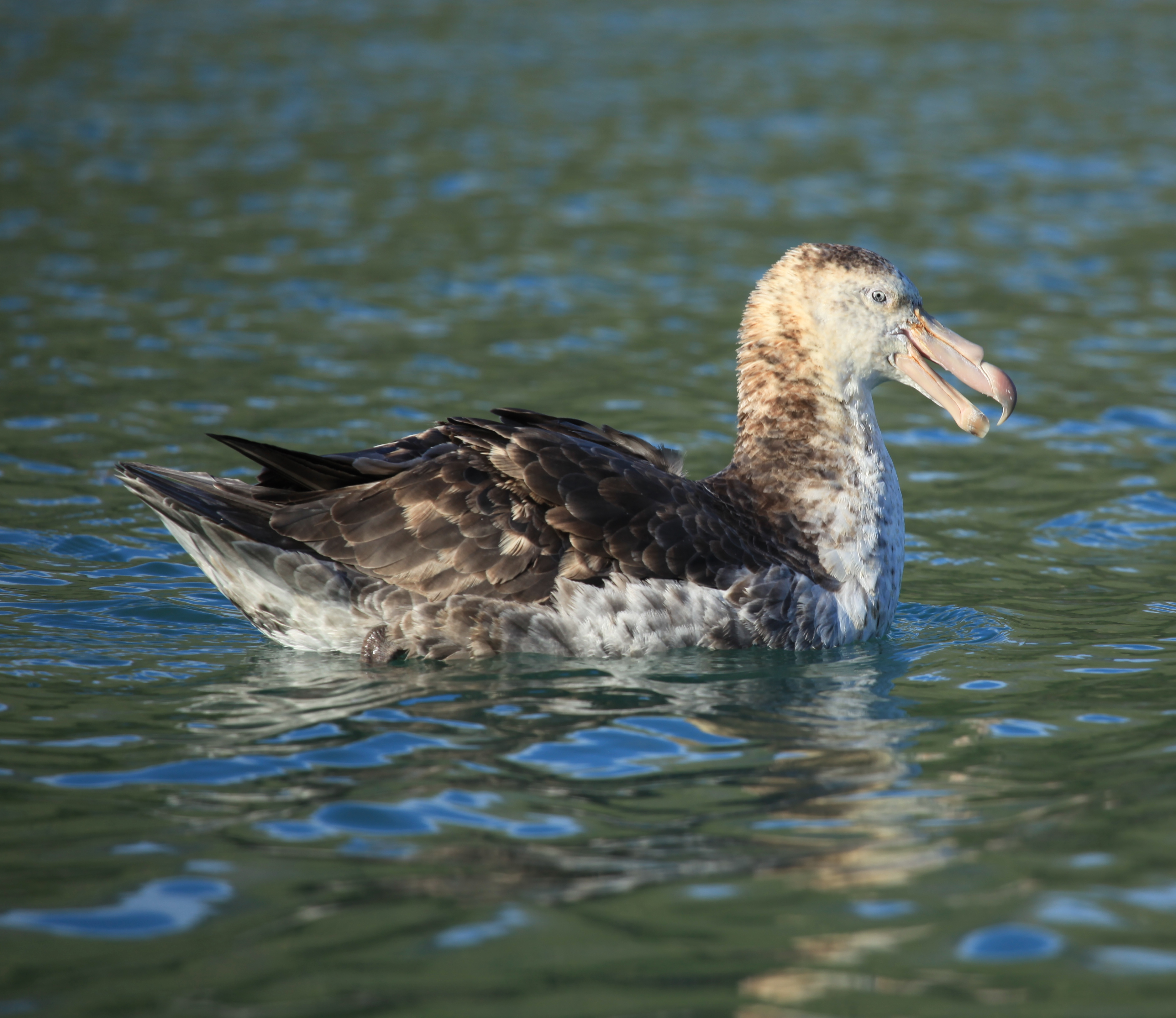 A Northern Giant Petrel swimming in Cooper Bay, South Georgia, British Overseas Territories, UK.